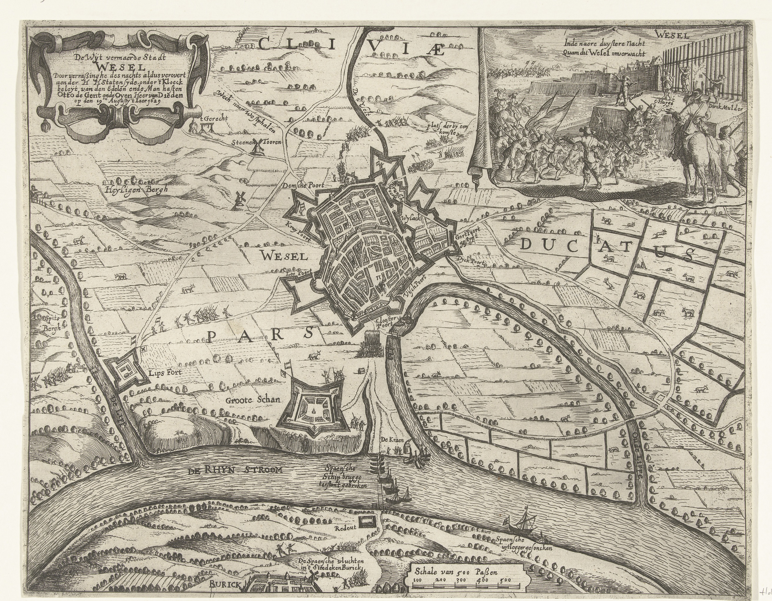 The surprise capture of Wesel by the Dutch troops on the 19th of August 1629.